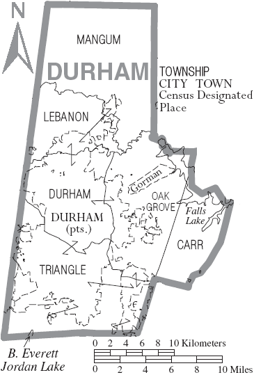 Map of Durham County, North Carolina, United States with township and municipal boundaries